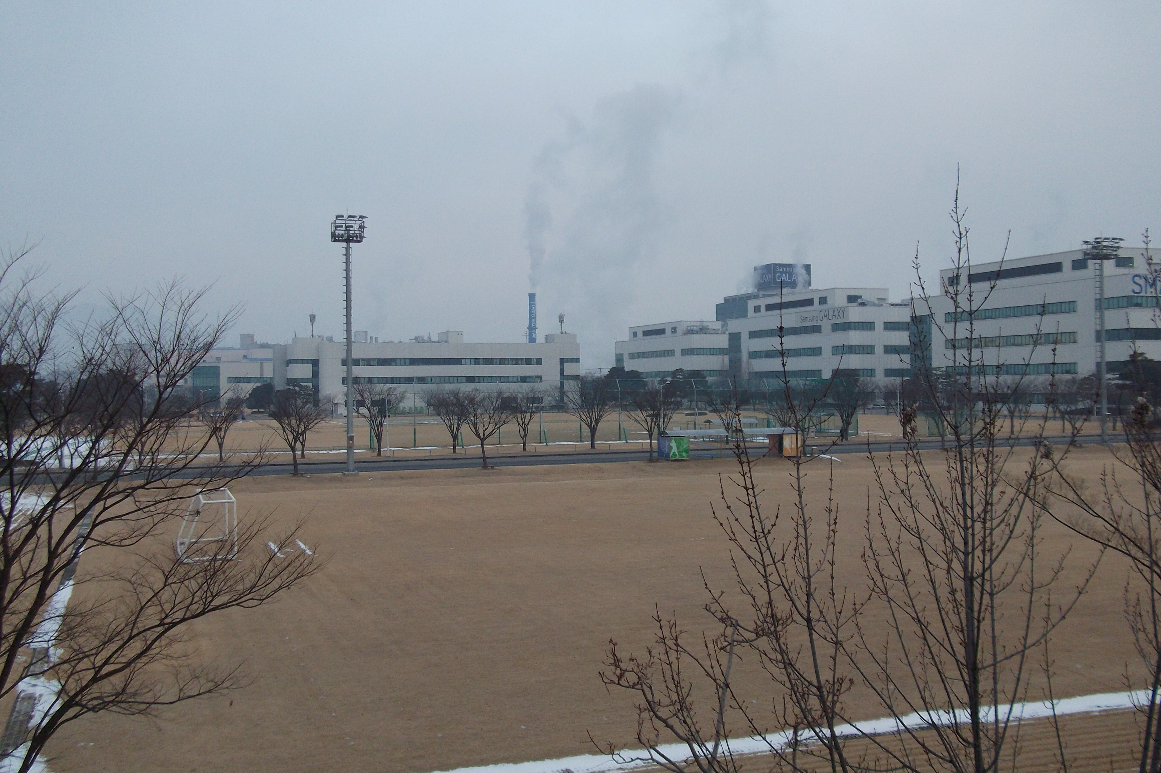 Samsung Campus-2 at Gumi-si city